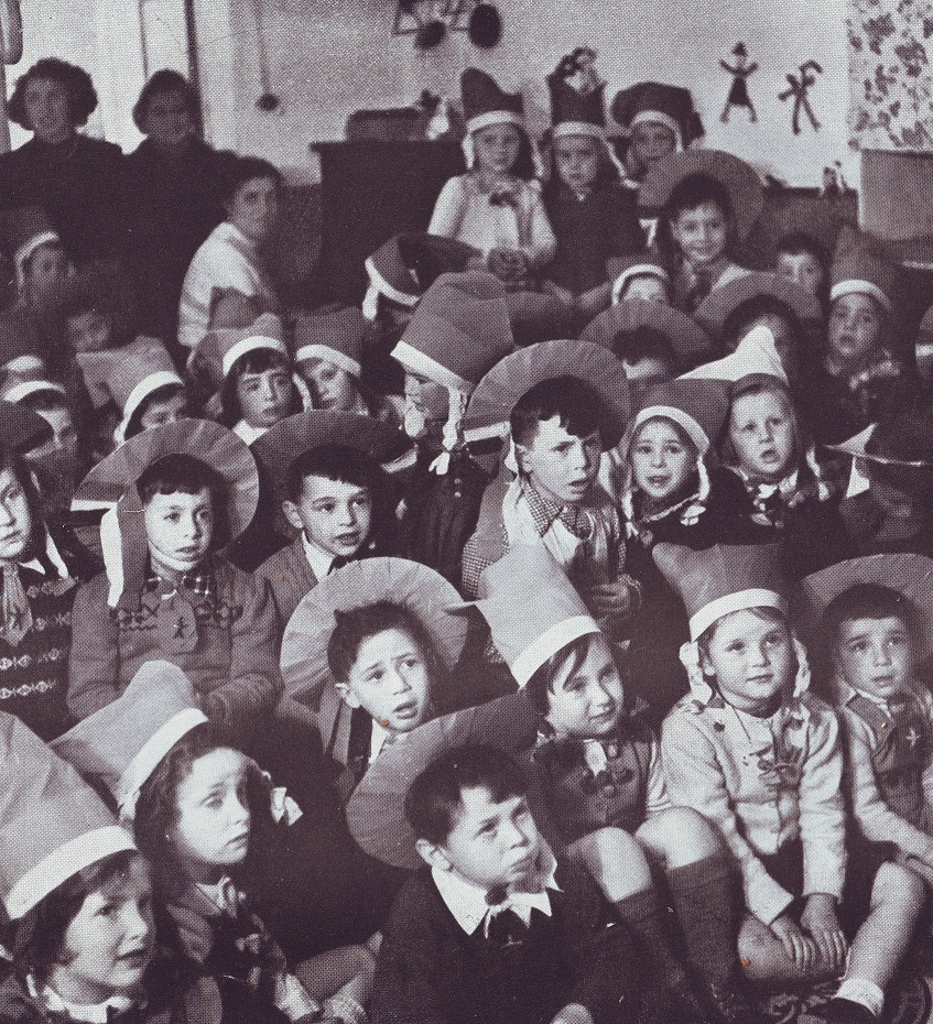 Purim, Jewish holidays